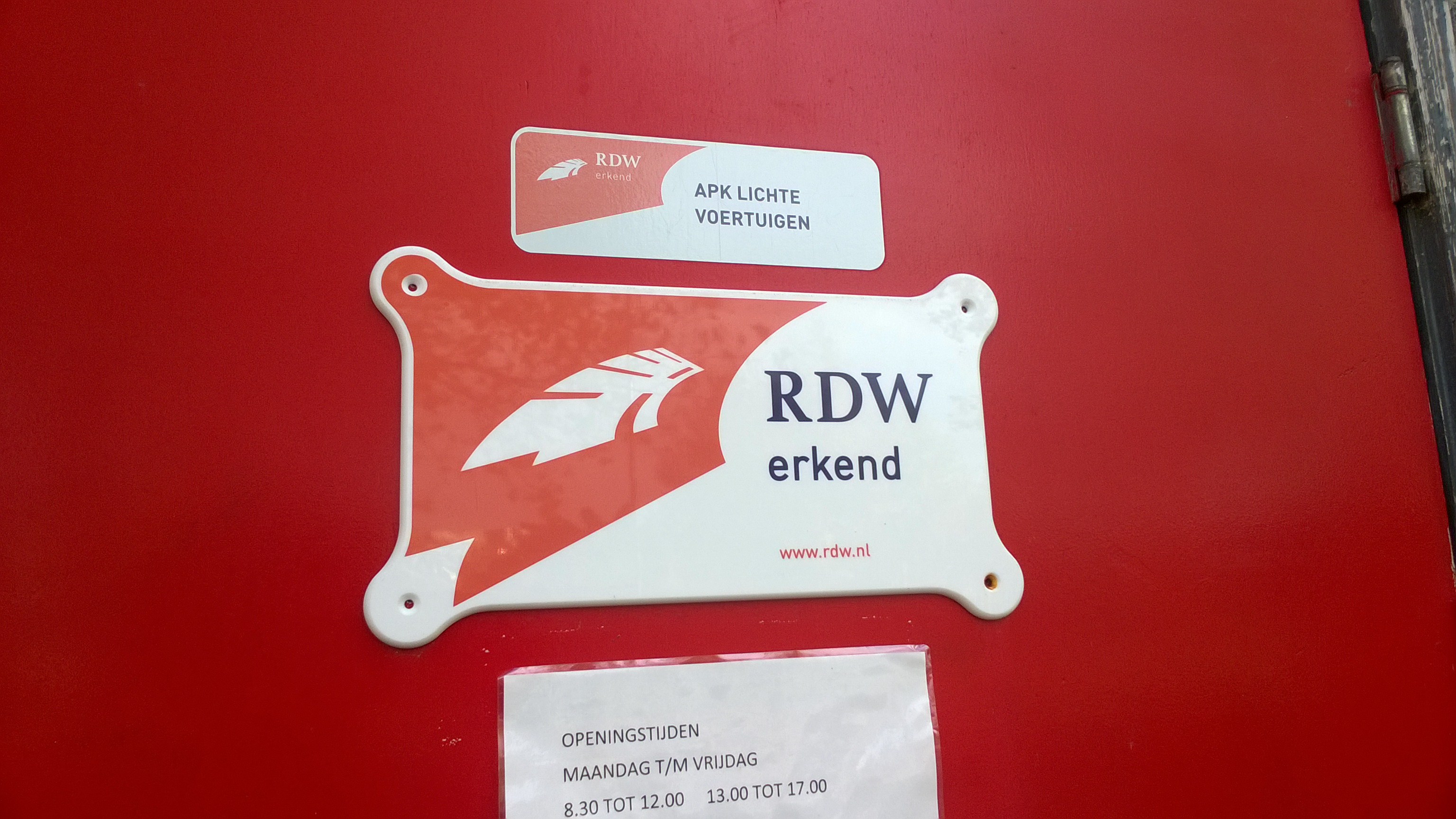 A sign indicating that this is a licensed garage in the Groninger city of Winschoten, Oldambt.